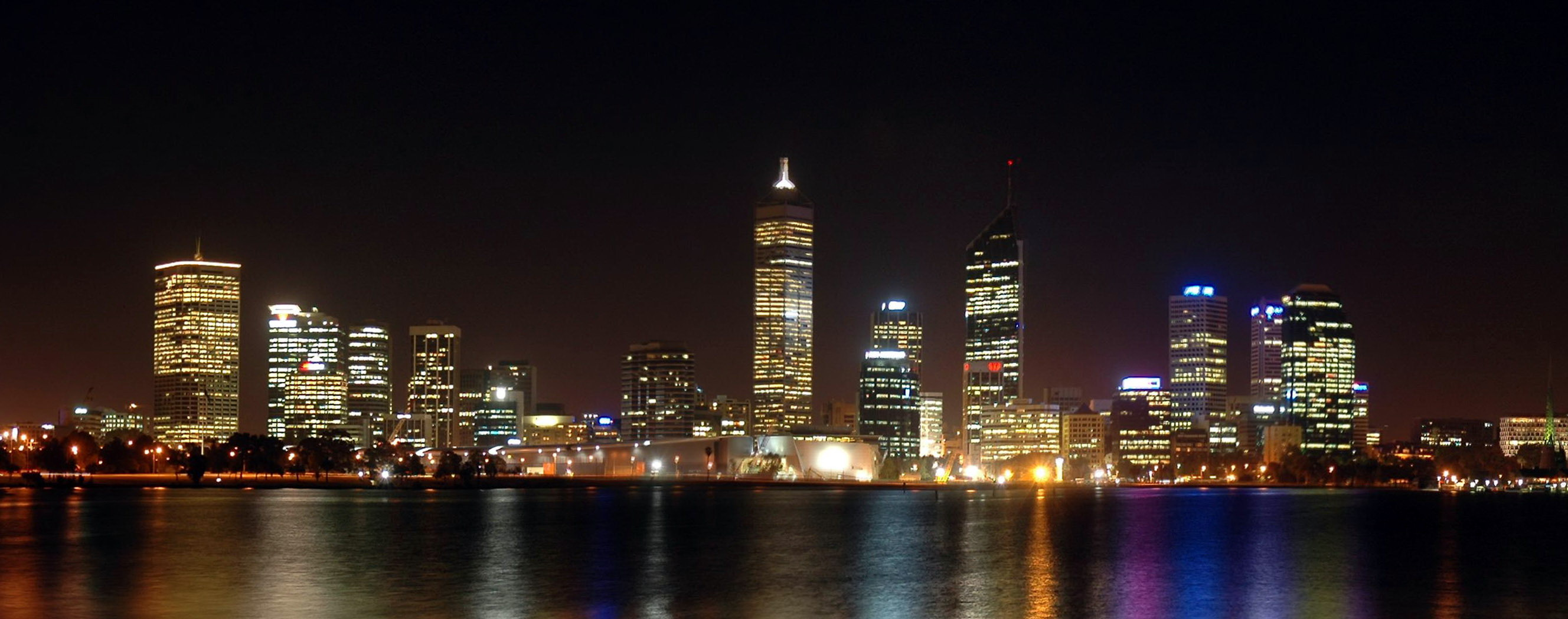 Perth Western Australia at night.